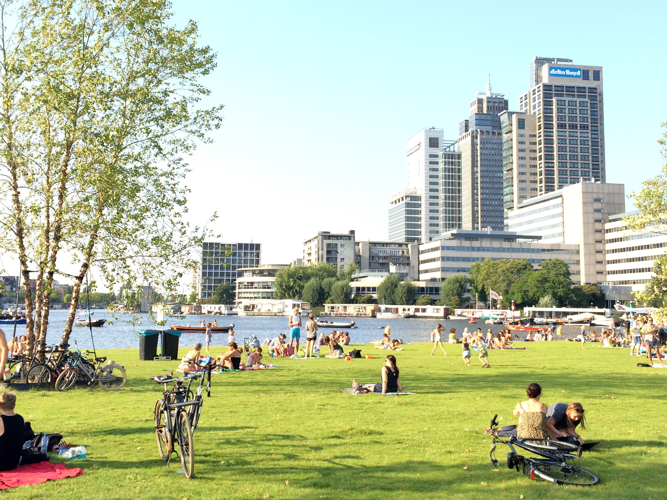 View on the Omval business park in Amsterdam, the Netherlands. Taken from the Korte Ouderkerkerdijk.